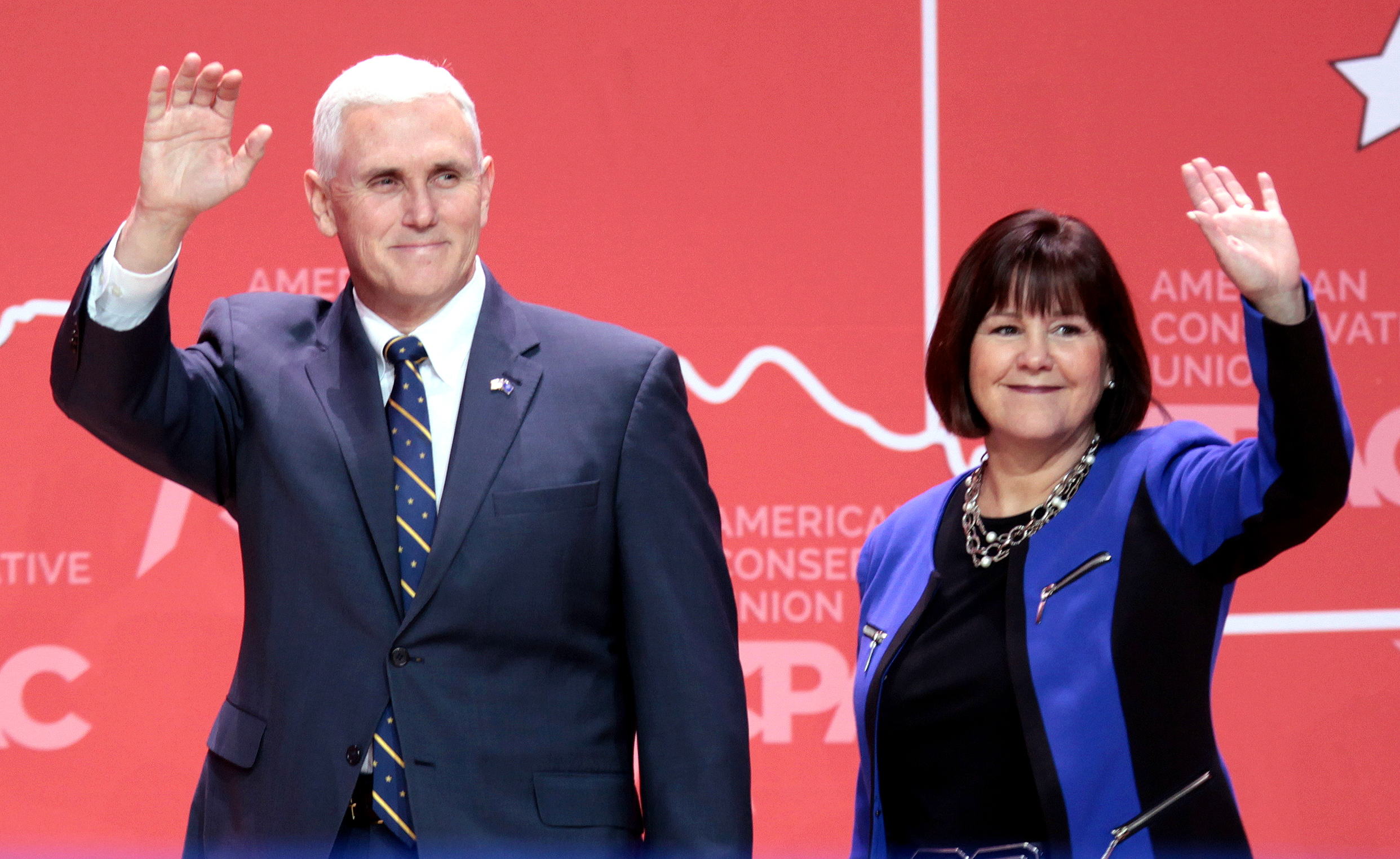 Mike Pence and his wife, Karen Pence, speaking at CPAC 2015 in Washington, DC.